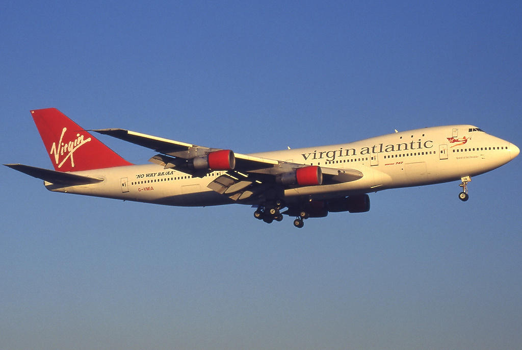 Virgin Atlantic Boeing 747-123 "Spirit of Sir Freddie" (G-VMIA) arriving at Gatwick Airport.